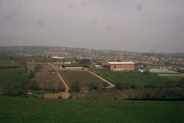 Footpath to Thornton A footpath ran from Low lane Clayton over the Thornton Grammar School, where many of the youth of Clayton were educated. I am told that the fencing off of the paddocks only took place a few weeks ago.